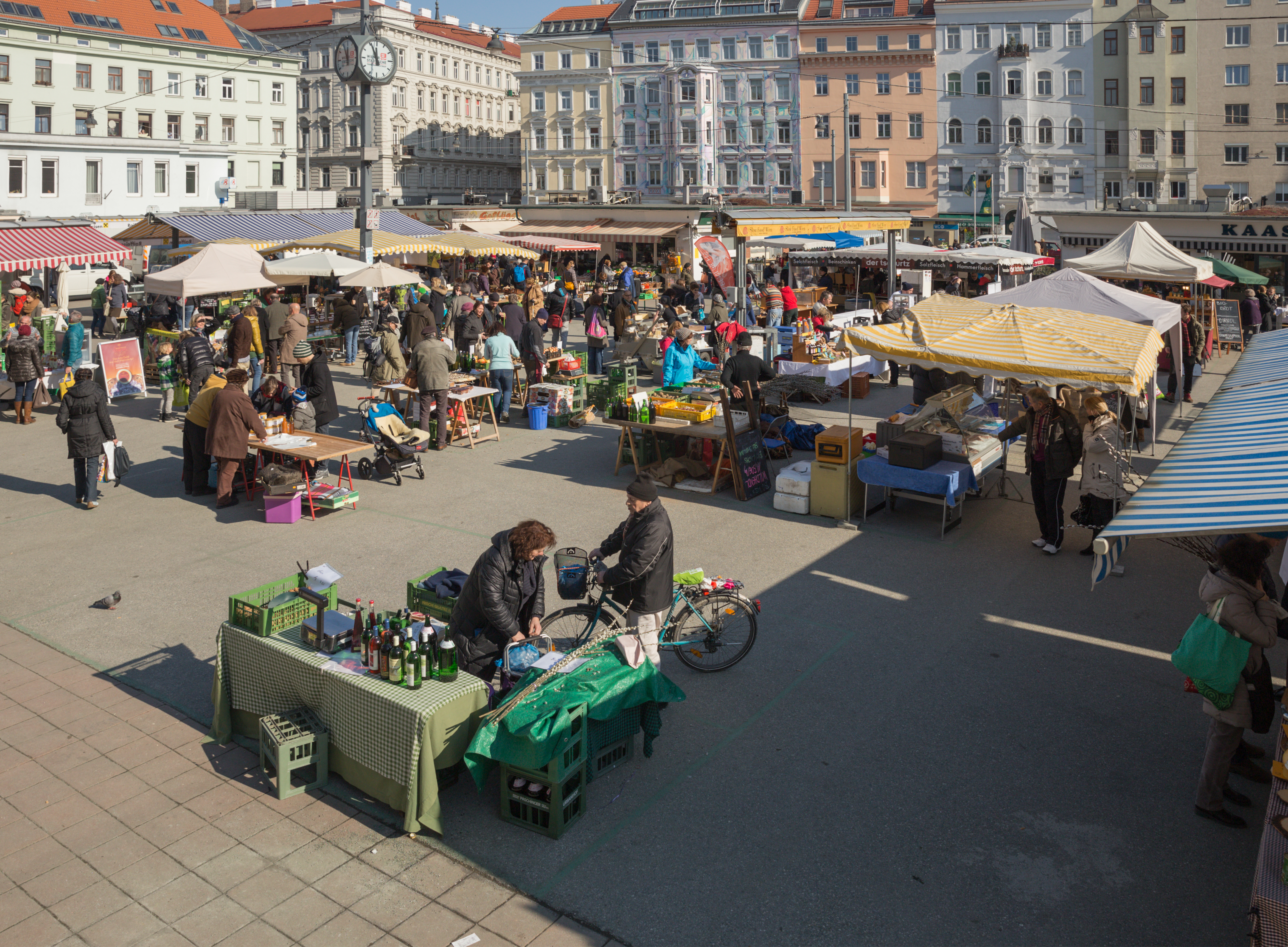 Farmersmarket on a saturday at the Karmelitermarkt, Vienna. Leopoldstadt